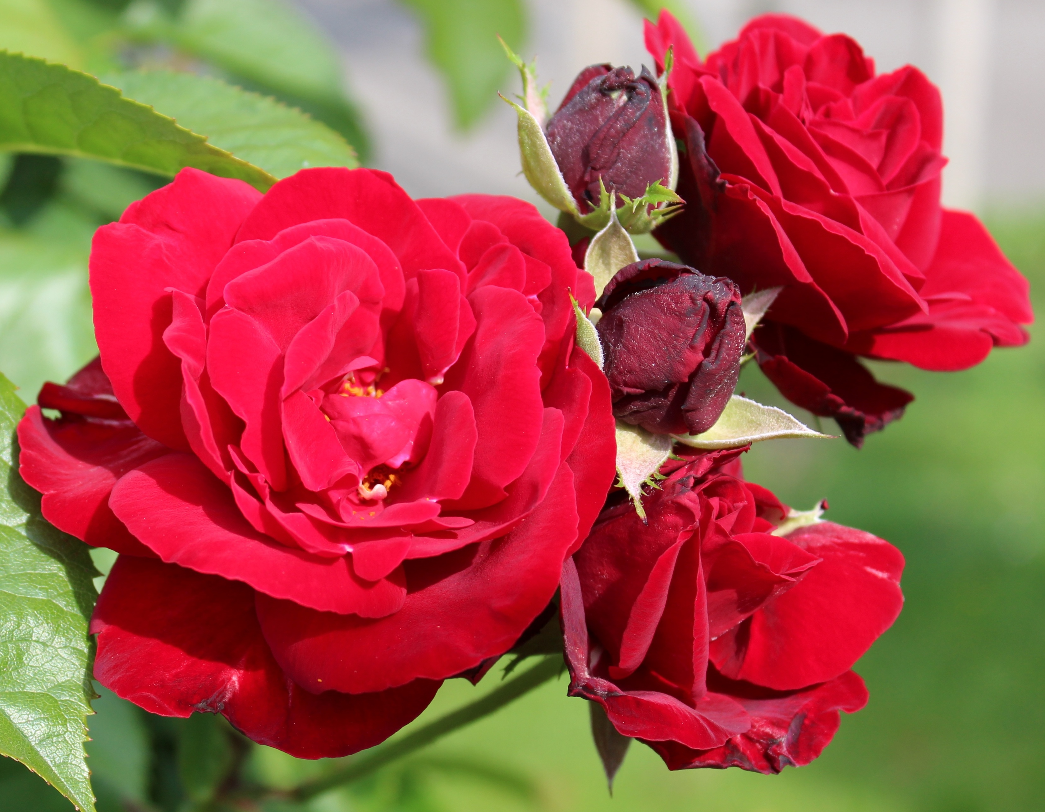 Rosa 'Europeana' in the Volksgarten in Vienna. Identified by sign.